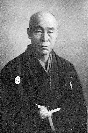 Architect Sone Tatsuzô